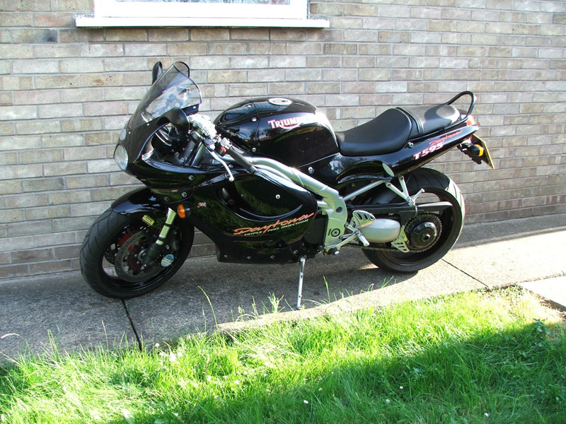 My Dad's bike. Is fast, apparently. I don't buy it.